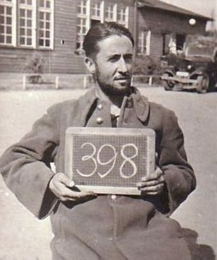 Photo shows Le Ray as a prisoner of war in Germany in 1941